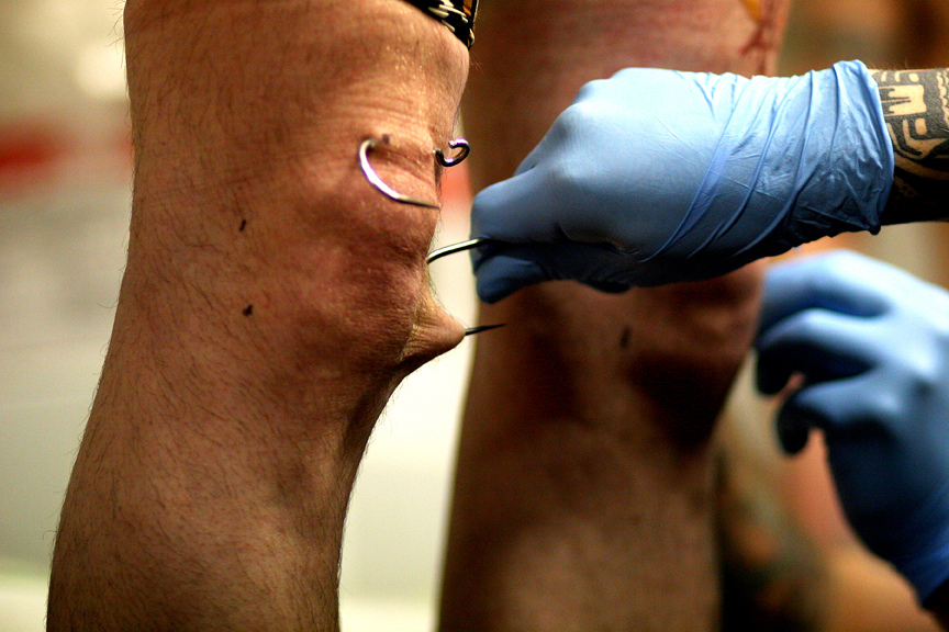 Preparing a knee suspension